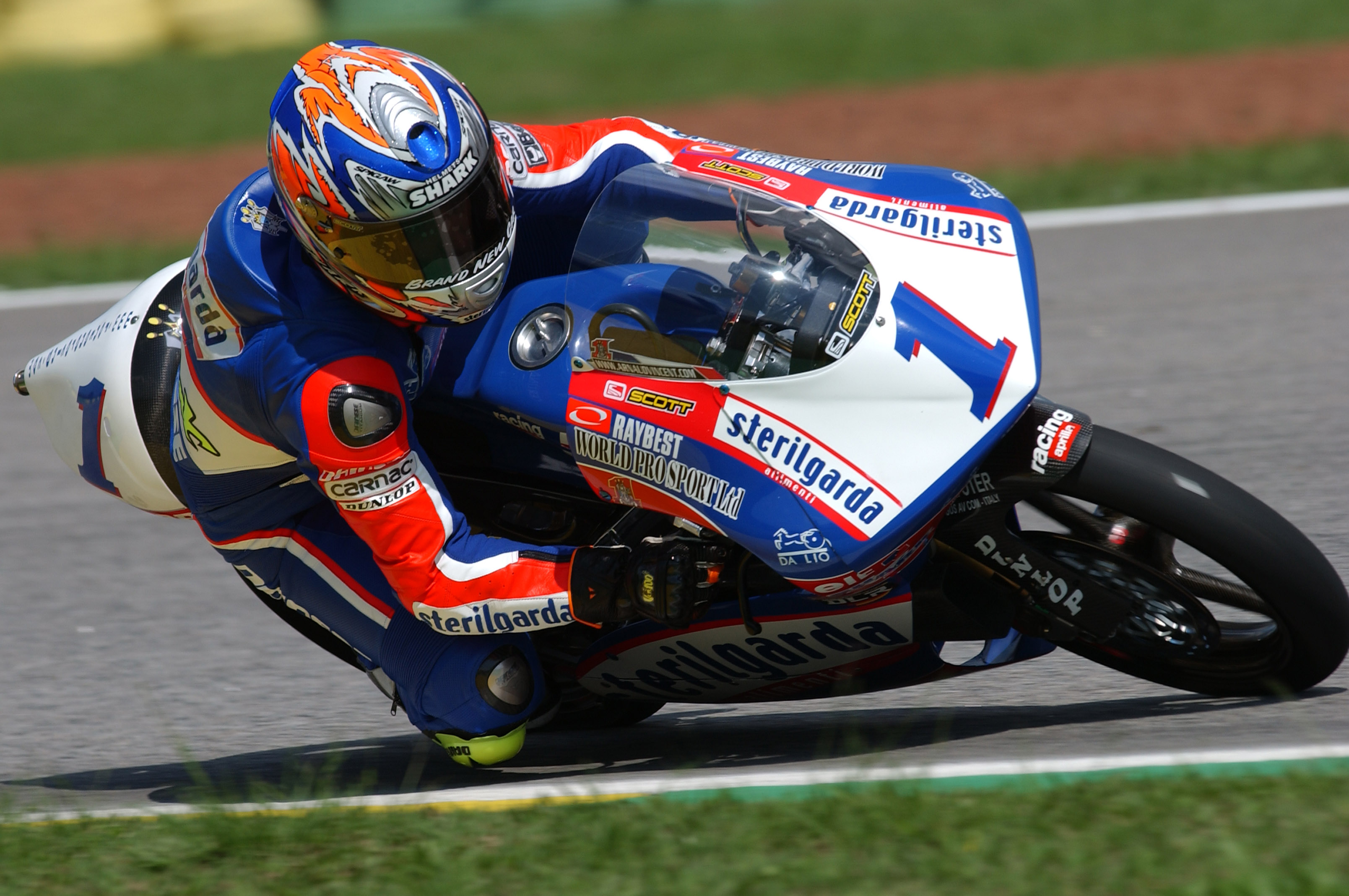 GP BRESIL 20/09/ 2003 (Circuit-JACAREPAGUA) Arnaud VINCENT Sterigarda Racing 125cc PSP: STAN PEREC